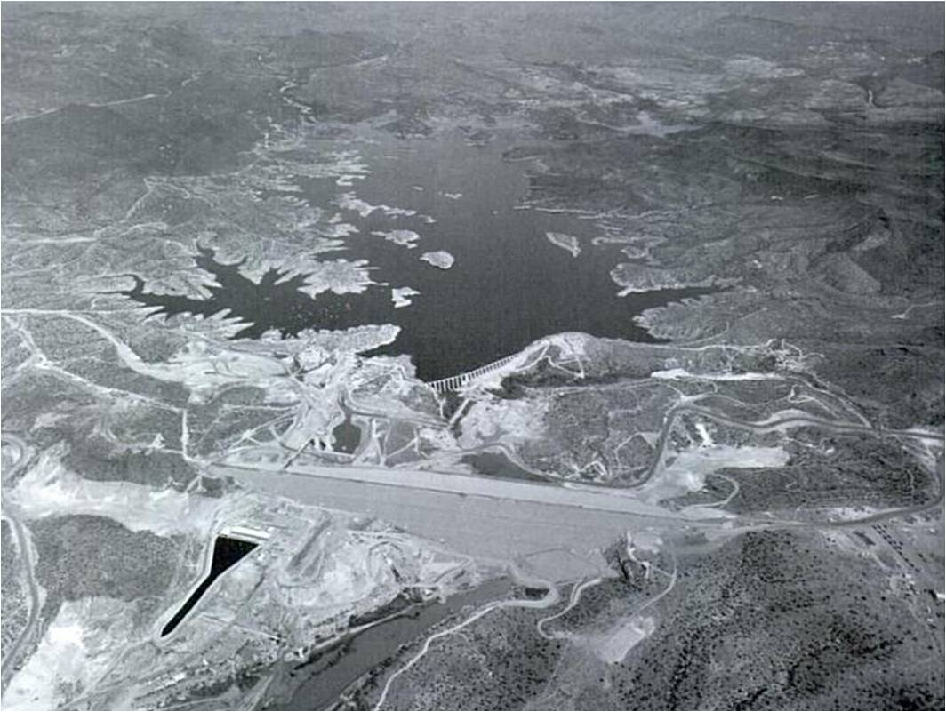 New Waddell Dam in 1992 prior to reservoir filling with Old Waddell Dam in background